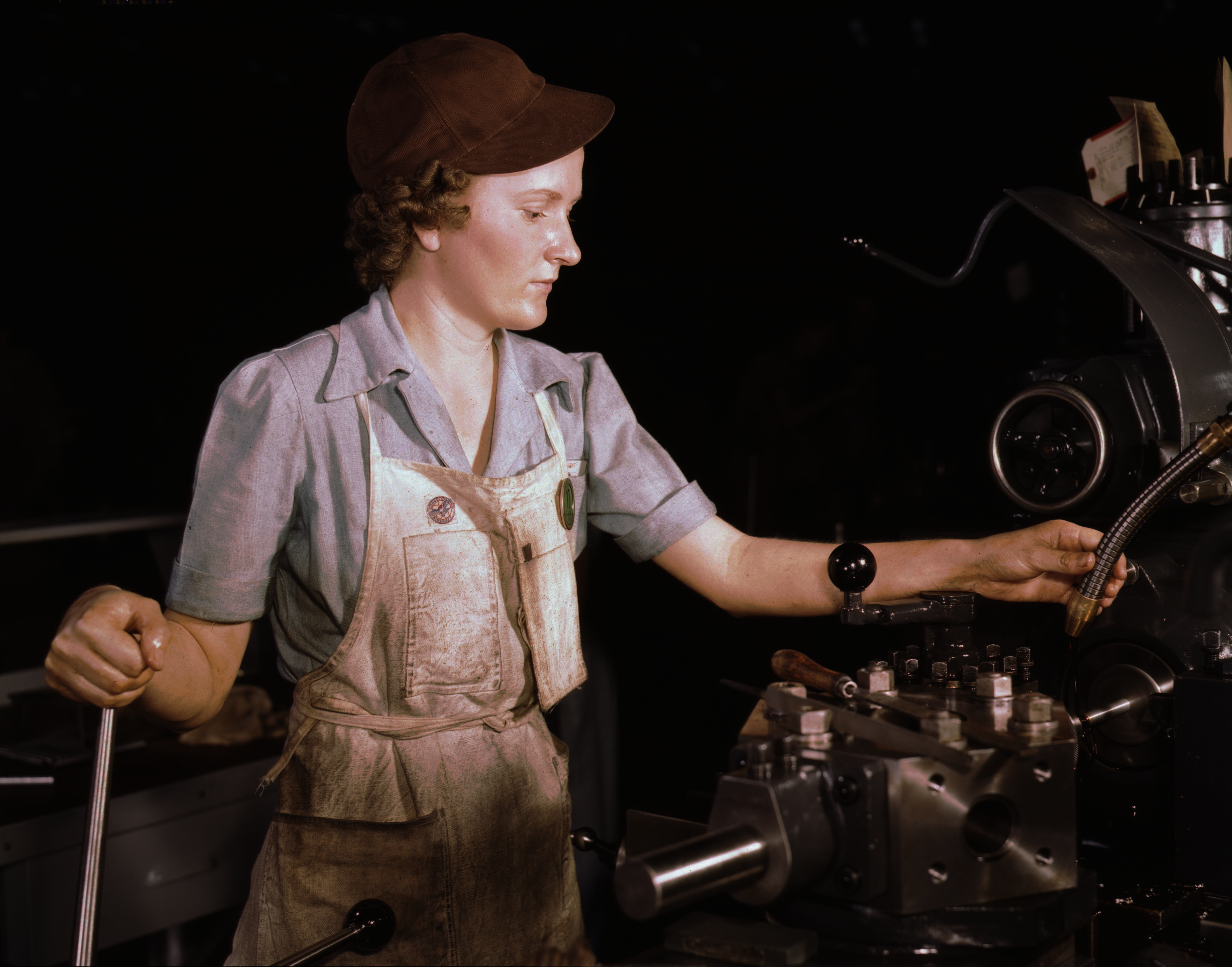 Title: Beulah Faith, 20, used to be sales clerk in department store, reaming tools for transport on lathe machine, Consolidated Aircraft Corp., Fort Worth, Texas